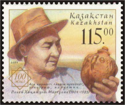 Stamp of Kazakhstan